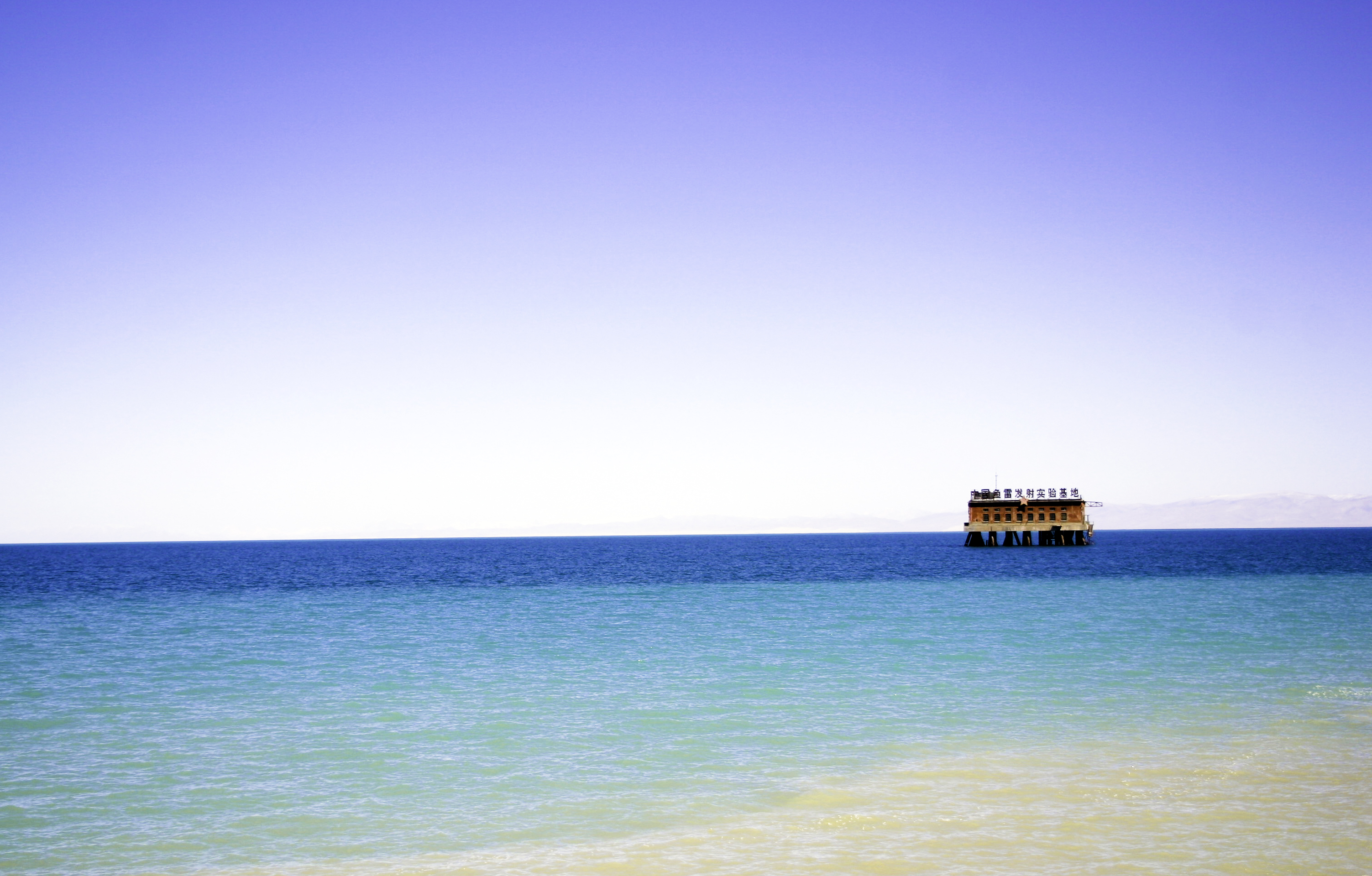 Qinghai Lake, China’s largest inland salt water lake is at 3200 meters above sea level and is situated at the east of Qinghai province, around 2 1/2 hours drive from Xining.